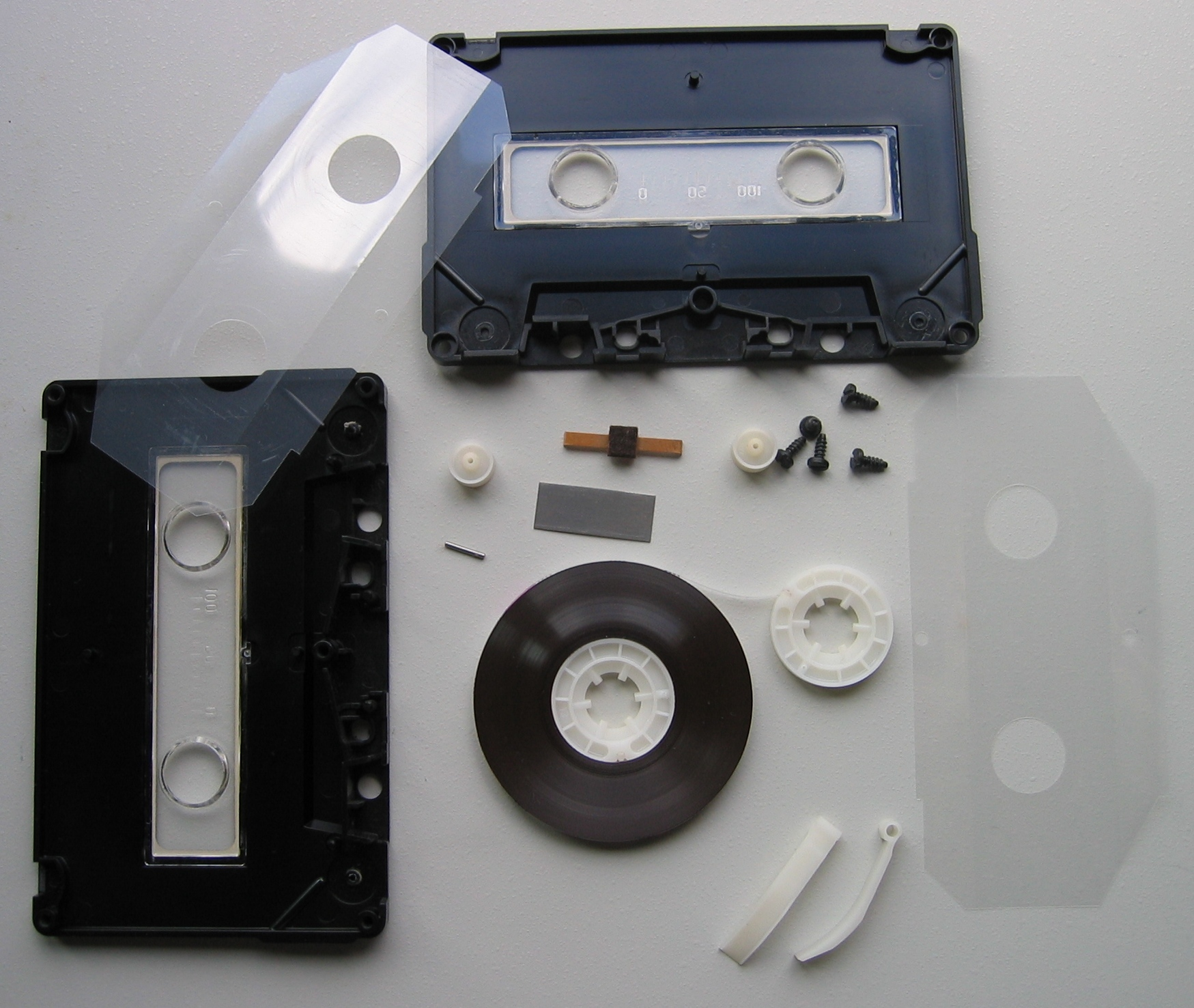 Parts of a Compact Cassette with SM